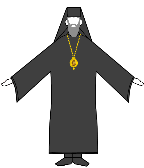 An Orthodox Bishop dressed in an exorasson and wearing a klobuk. His rank is designated by the engolpion around his neck.